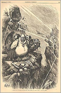 A Group of Vultures Waiting for the Storm to "Blow Over"--"Let Us Prey." by Thomas Nast Wood engraving published in Harper's Weekly newspaper, September 23, 1871 Boss Tweed and the Tammany Ring shown as vultures perched on a cliff trying to wait out the storm of accusations.